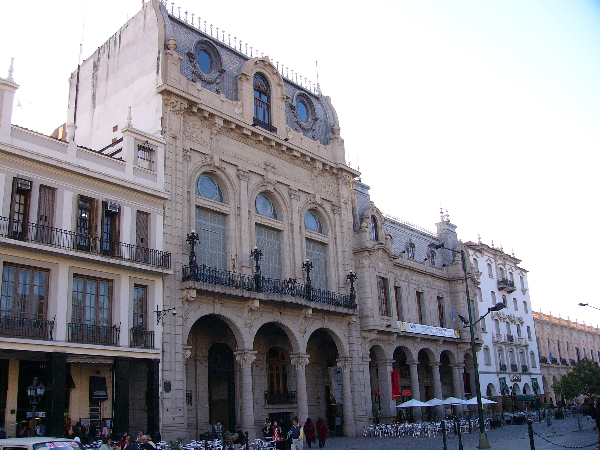 Centro Cultural América in Salta, Argentina. Completed in 1913 as the Club Social 20 de Febrero, it was used as the Provincial Government Building between 1950 and 1987. It was reinaugurated as the América Cultural Center in 2010.